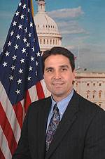 Brad Ellsworth, member of the United States House of Representatives.